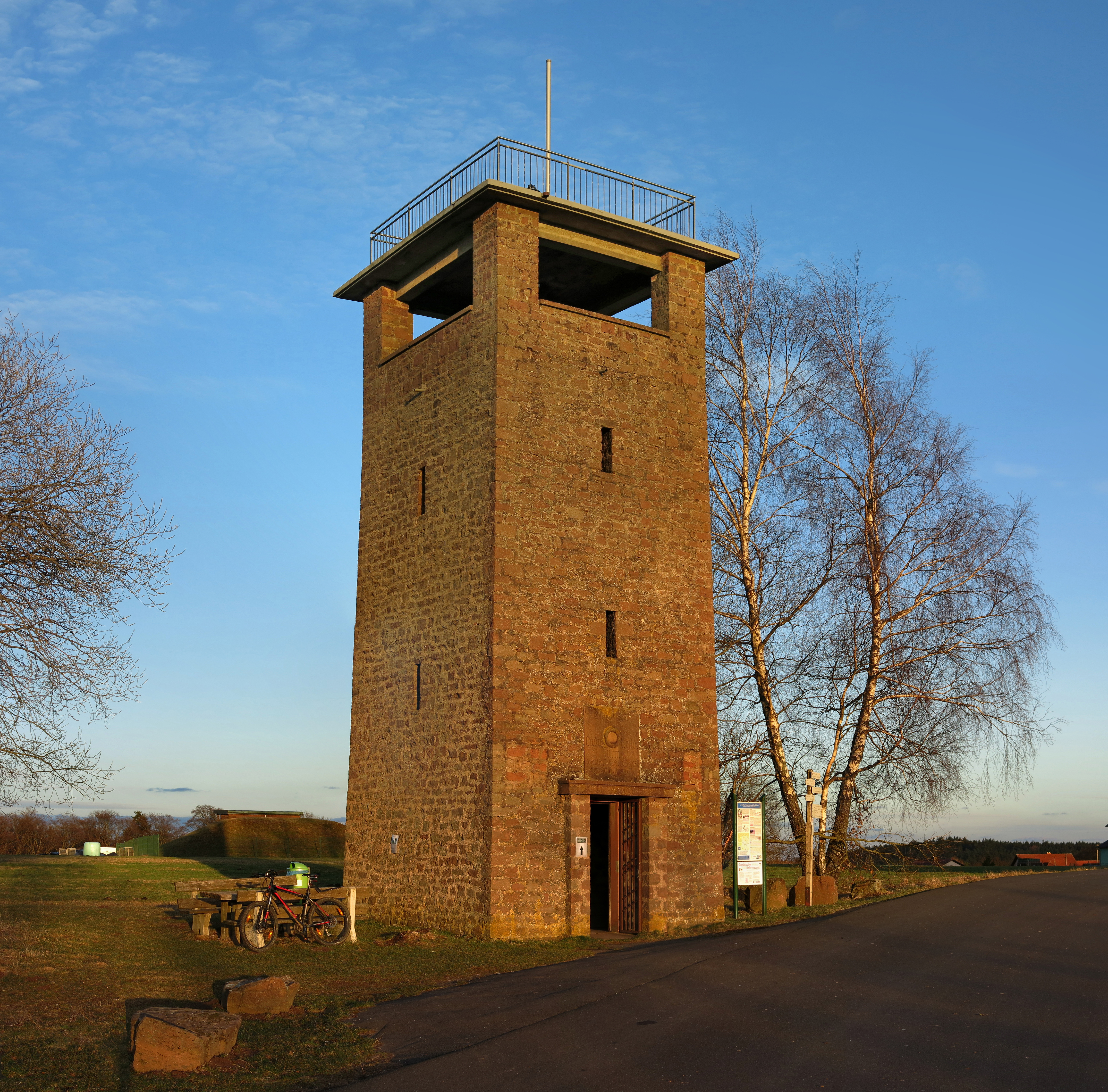 Ludwig-Keller-Tower on the Geishöhe in the Spessart.